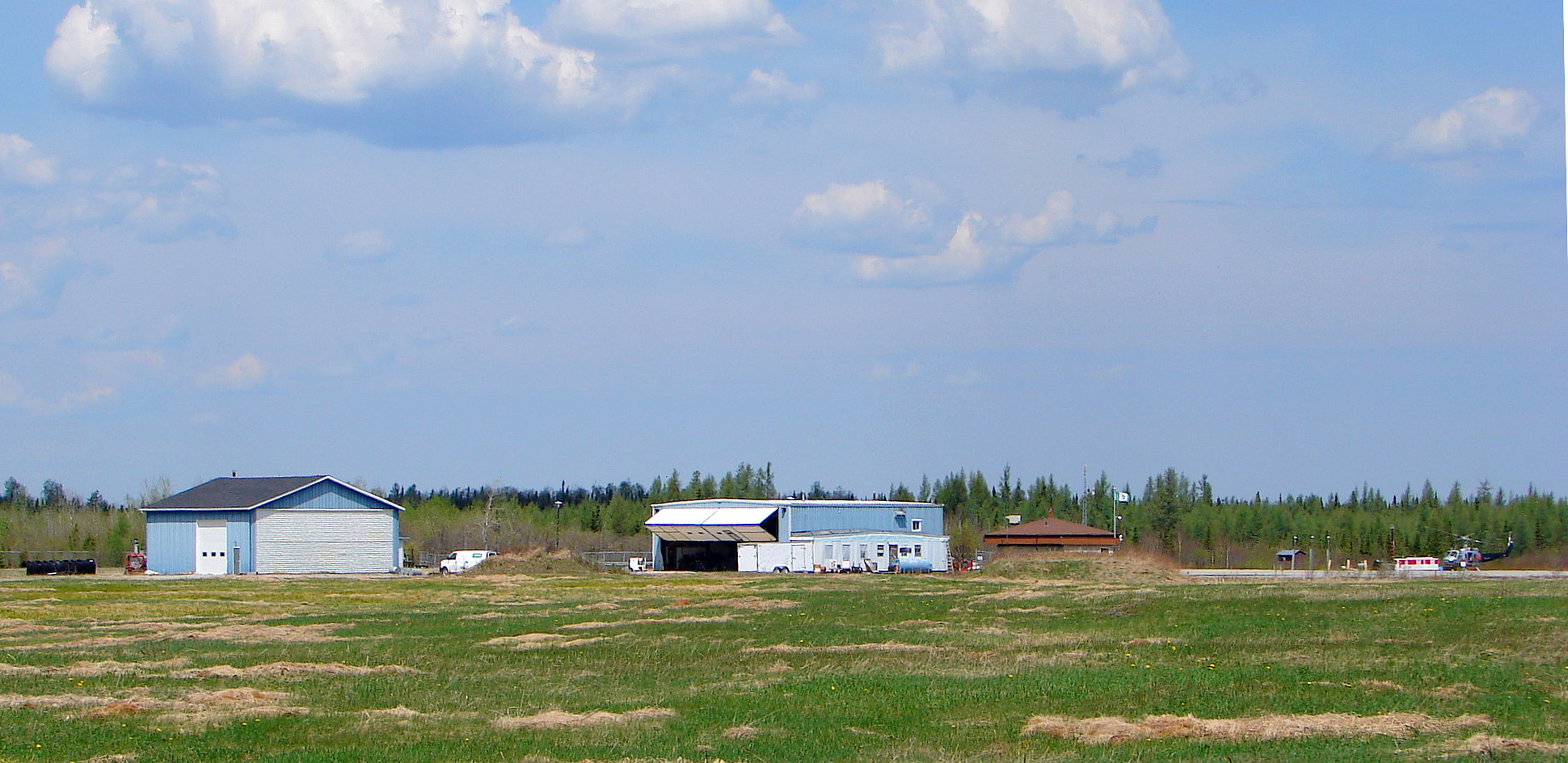 Hearst Municipal Airport, Ontario, Canada